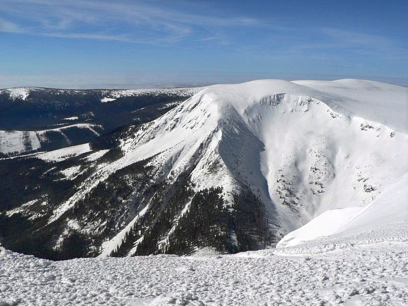 Studnicni Mountain, Giant Mountains, Czech republic